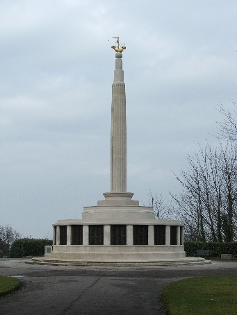 Royal Naval Patrol Service Memorial in Belle Vue Park, Lowestoft.